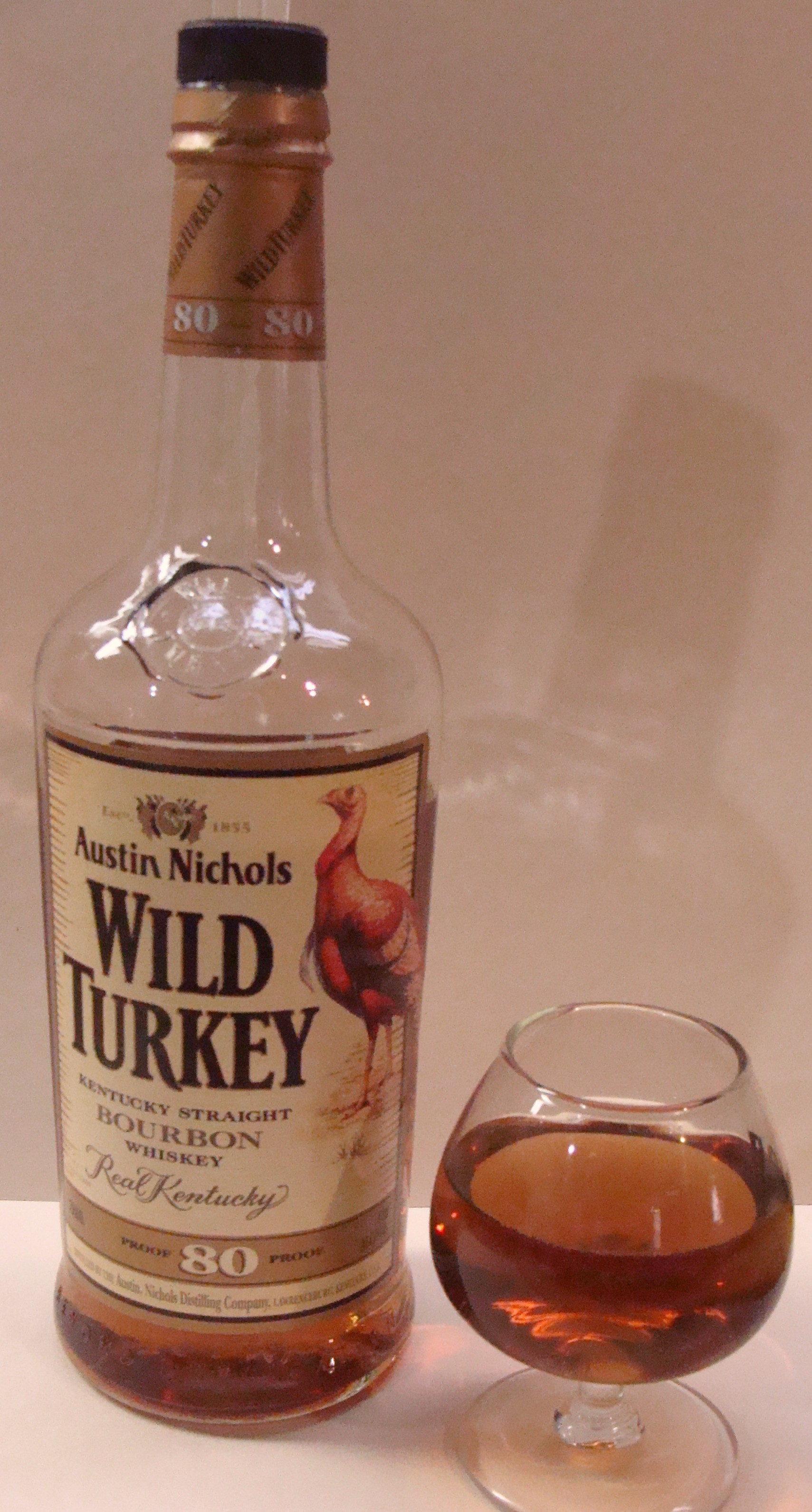 This is entirely my own work. It a photo of a bottle of Bourbon from my own whiskey Collection. I took the photo on 01/18/11 and uploaded on 02/08/11. It was taken with the sole intention of posting on wikipedia for education purposes only and for no capital gain. It is available for FREE USE to anyone.Craiglduncan (talk) 00:40, 8 February 2011 (UTC)